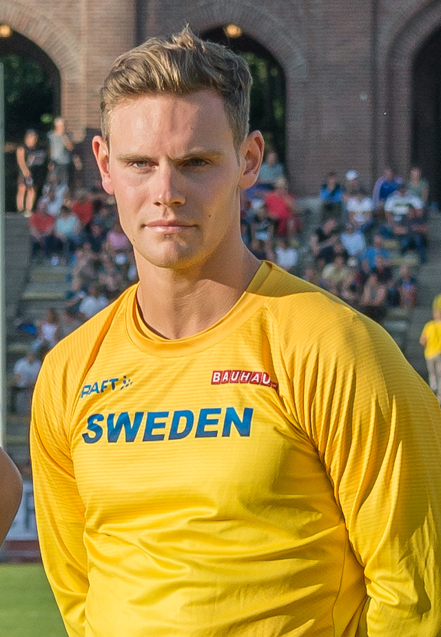 Melker Svärd Jacobsson during the Finland-Sweden athletics international 2019 at the Stockholm Stadium in August 2019.